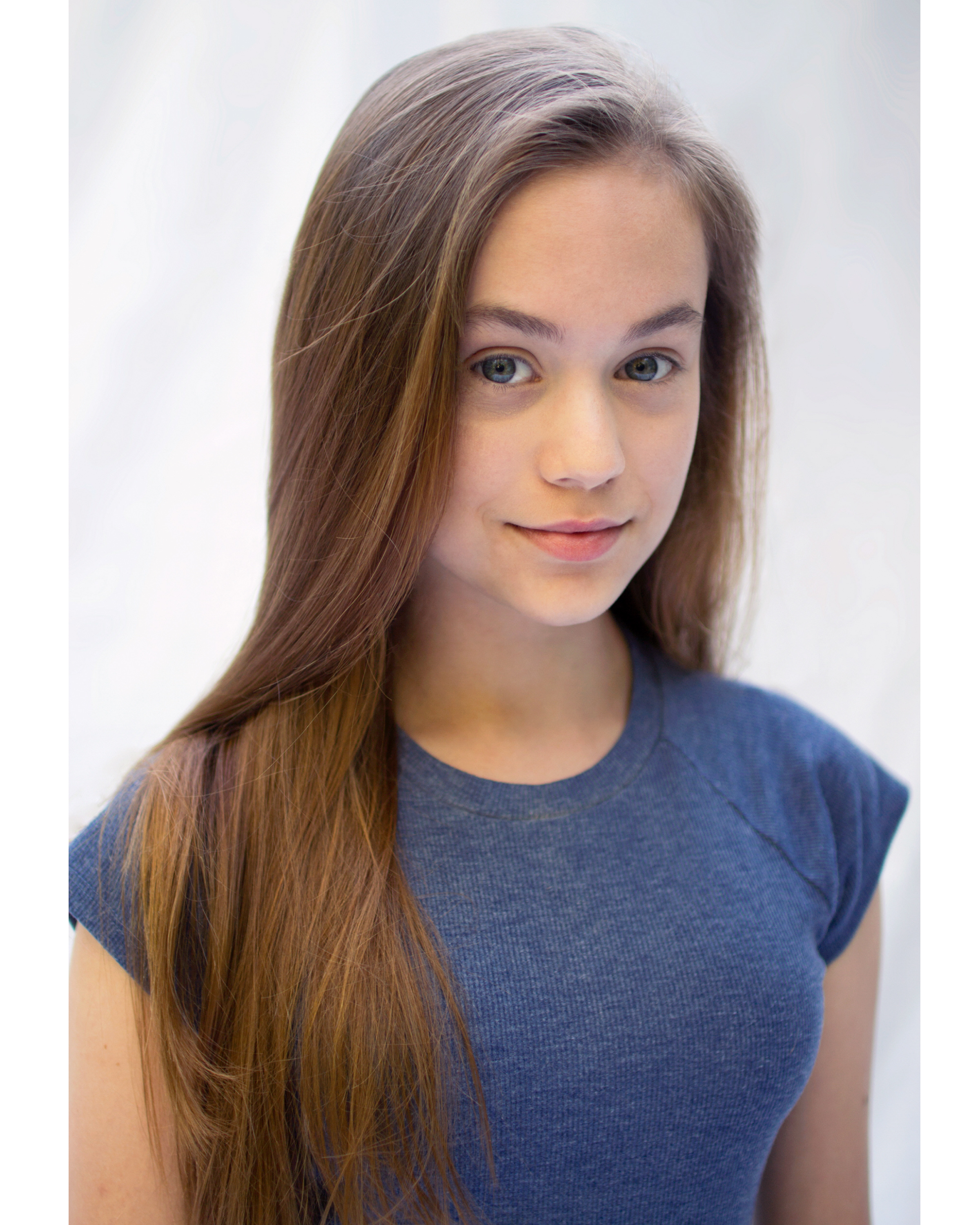 Ella Ballentine 2016